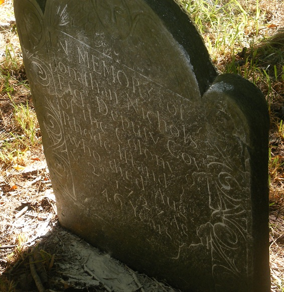 Grave marker of Jonathan Nichols, Sr., colonial Rhode Island deputy governor, Nichols-Hassard Burial Ground, Portsmouth, Rhode Island